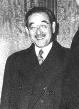 Japanese Special Envoy Saburō Kurusu (1886–1954)